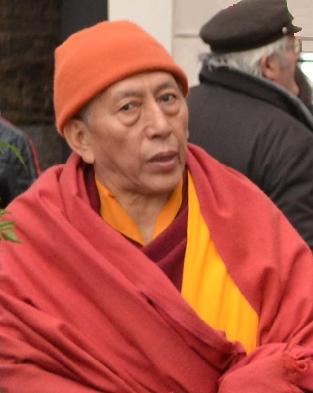 Professor Venerable Samdhong Rinpoche – Lobsang Tenzin (As Special Envoy of Dalai Lama, Prague 2011)